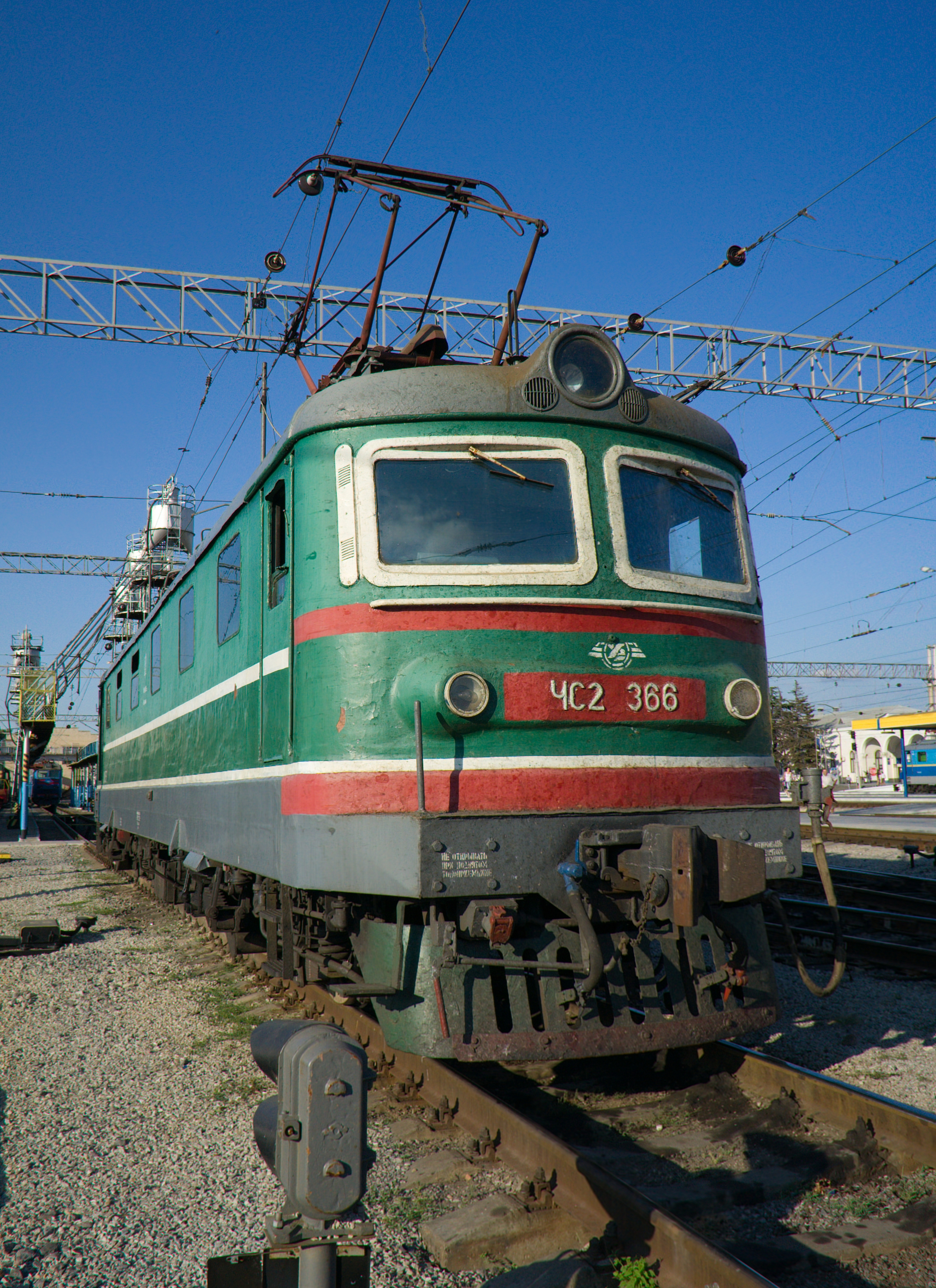 Electric locomotive ЧС2-366 in Simferopol.